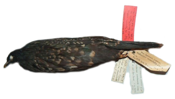 Spotted Green Pigeon Caloenas maculata, sole surviving specimen at World Museum, Liverpool.